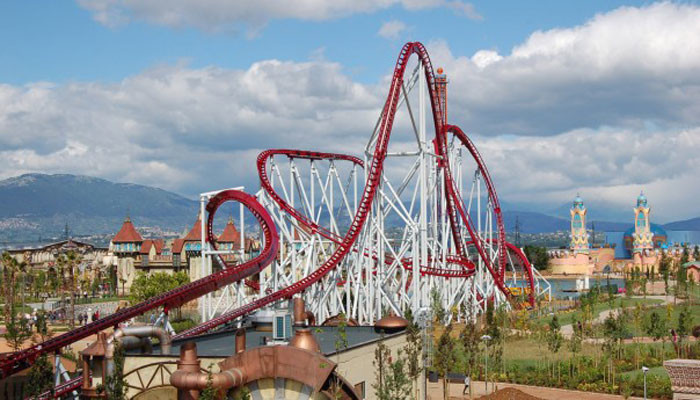 Shock, il roller coaster di Rainbow MagicLand, il parco divertimenti più grande di Roma.